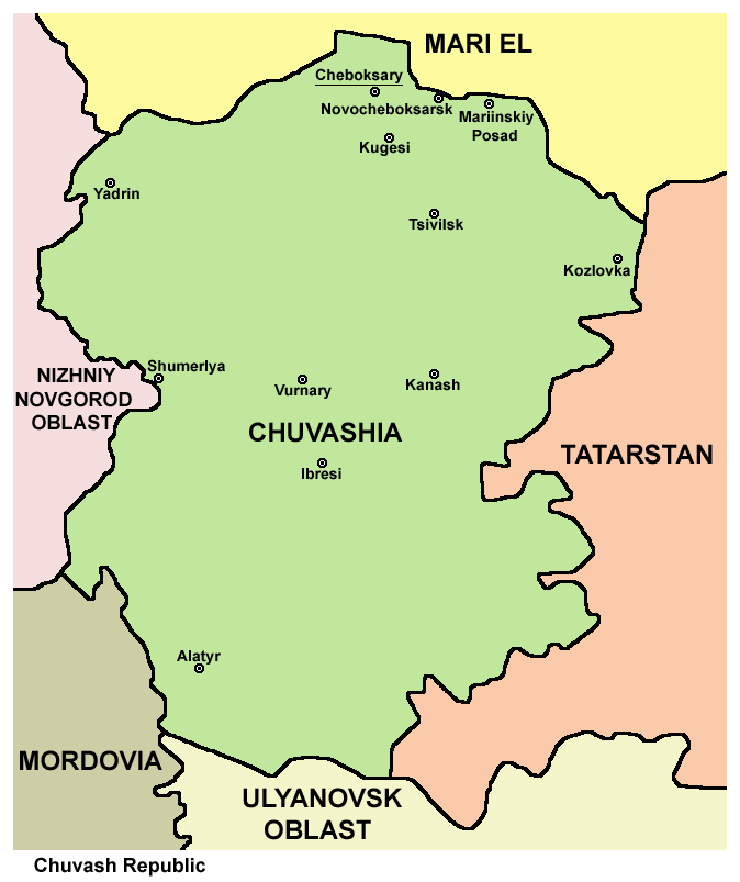 Map of Chuvashia